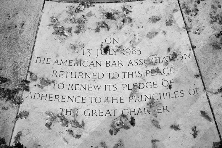 Engraved stone at the American Bar Association Memorial at Runnymede UK recalling their return visit to "Renew Its Pledge of Adherence To The Principles of the Great Charter" Author: Antony McCallum